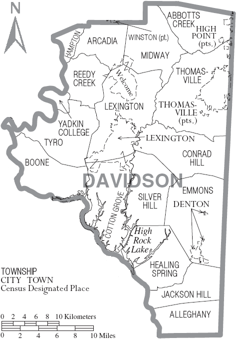 Map of Davidson County, North Carolina, United States with township and municipal boundaries